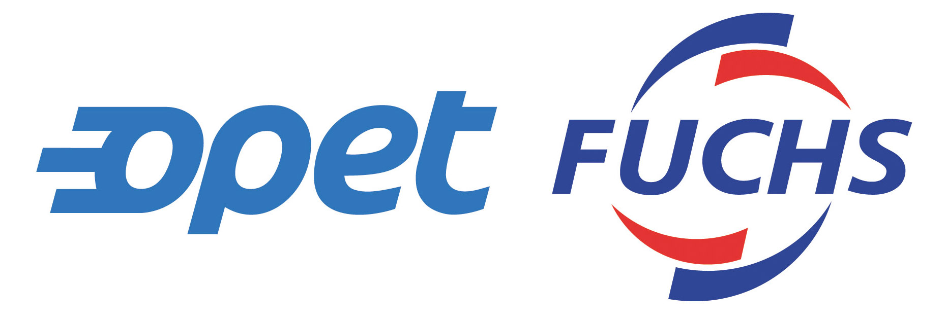 Opet Fuchs company logo